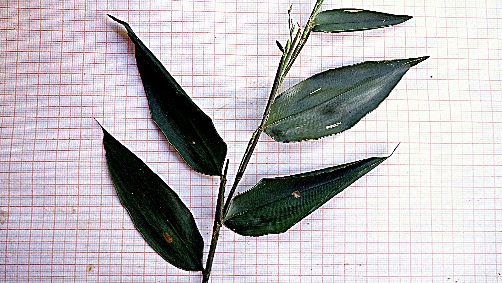 Ichnanthus nemoralis (Schrad. ex Schult.) Hitchc. & Chase